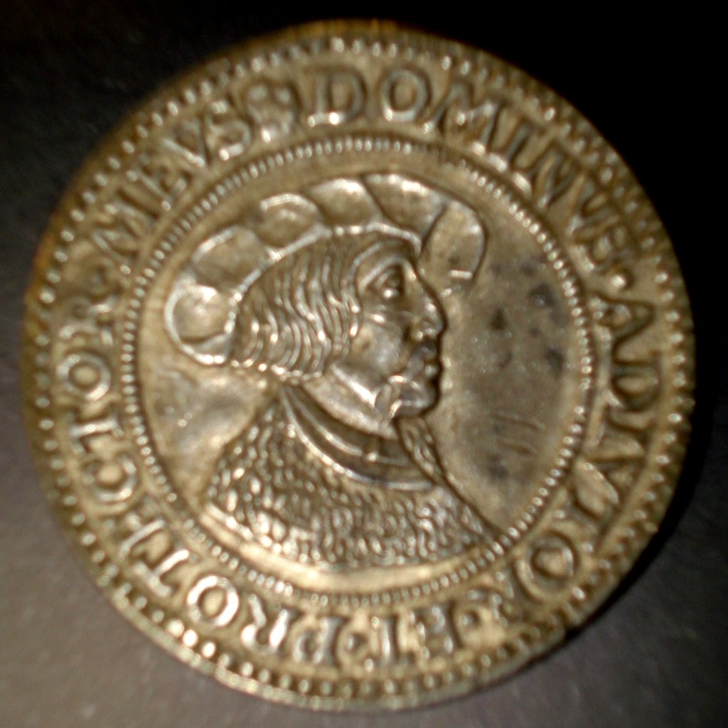 Prince Nicholas III Zrinski (c.1489-1534.) silver thaler, minted in Gvozdansko castle in 16th century (Croatia) - averse